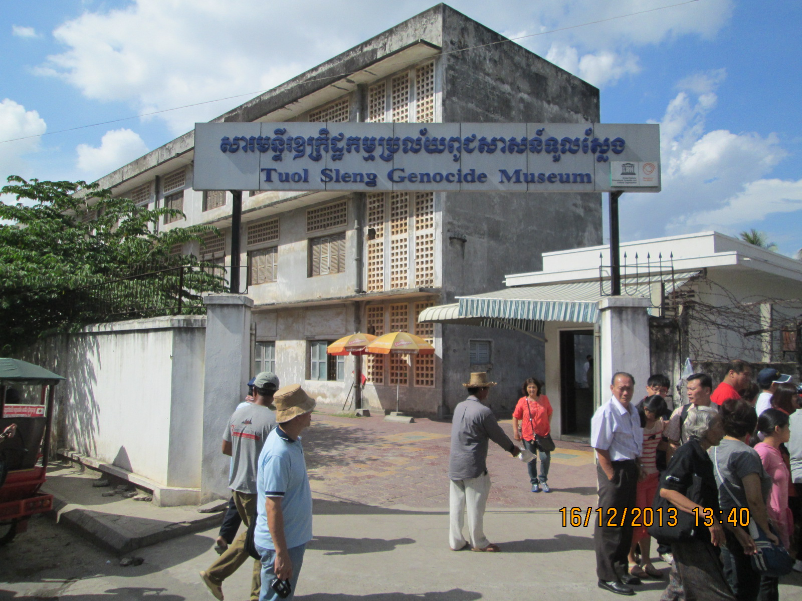 Entrance gate to prison .